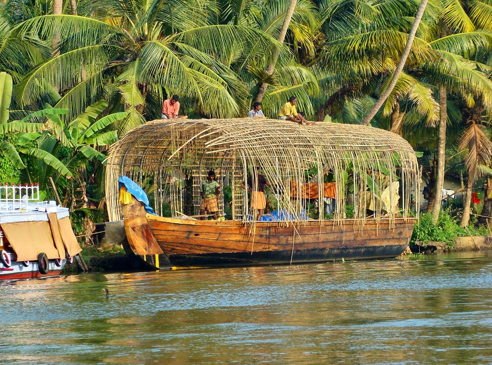 HouseBoat under construction @ Kumarakam, Kerala